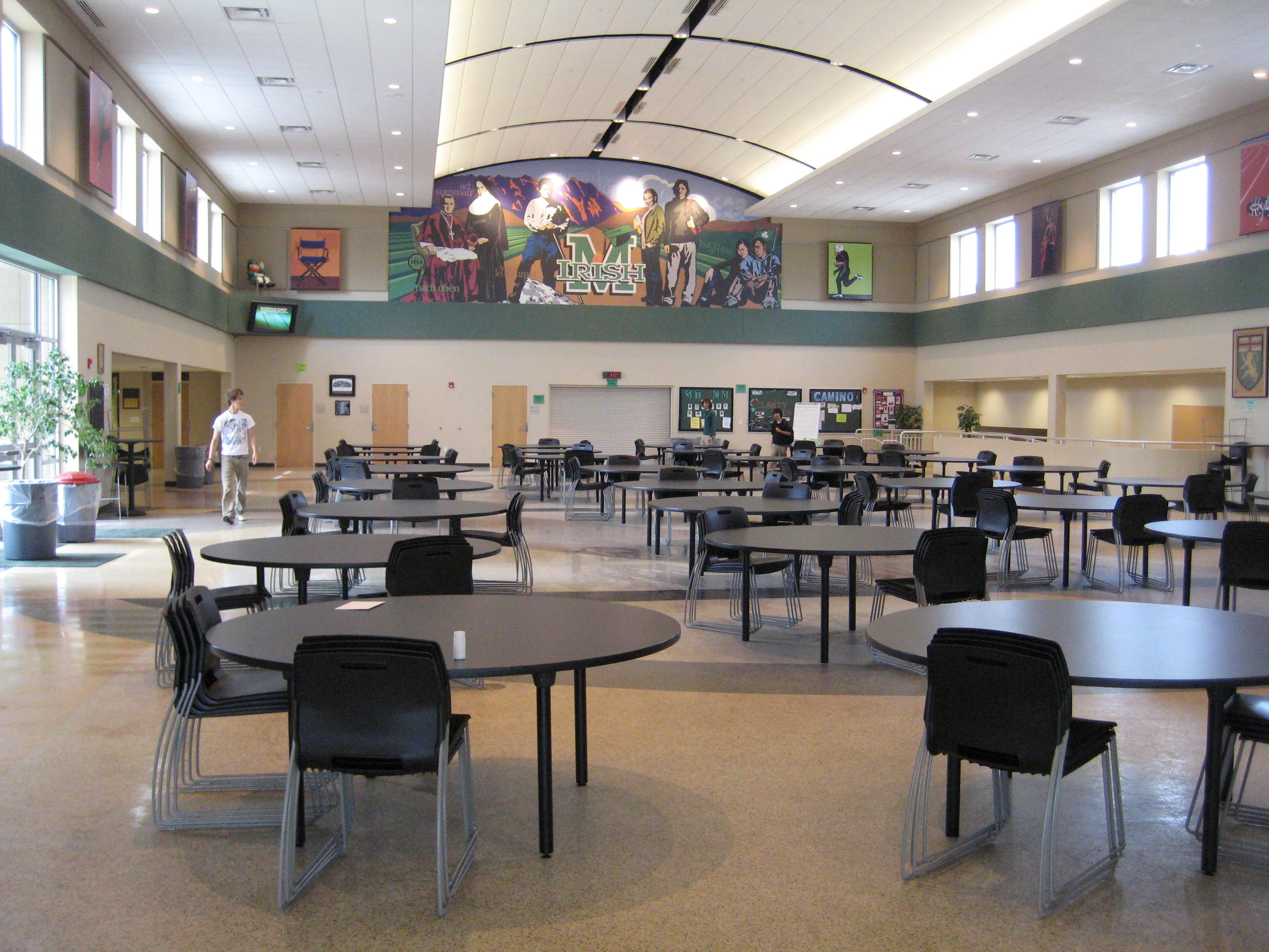 Bishop McGuinness Catholic High School (Oklahoma), commons area